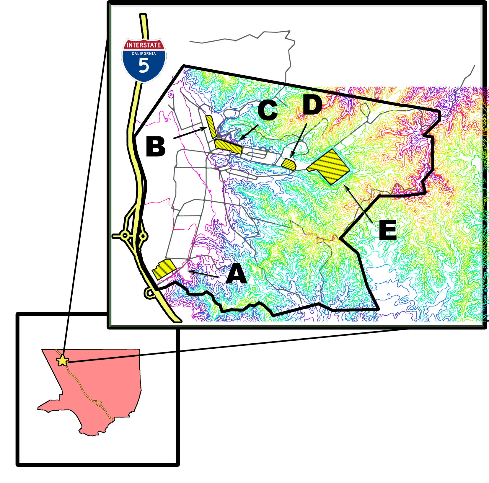 Map of Pitchess Detention Center. A. Visitor's parking lot and bus terminal, B. North Facility, C. South Facility, D. East Facility, E. NCCF, F. COGEN power plant, G. Wayside Heliport